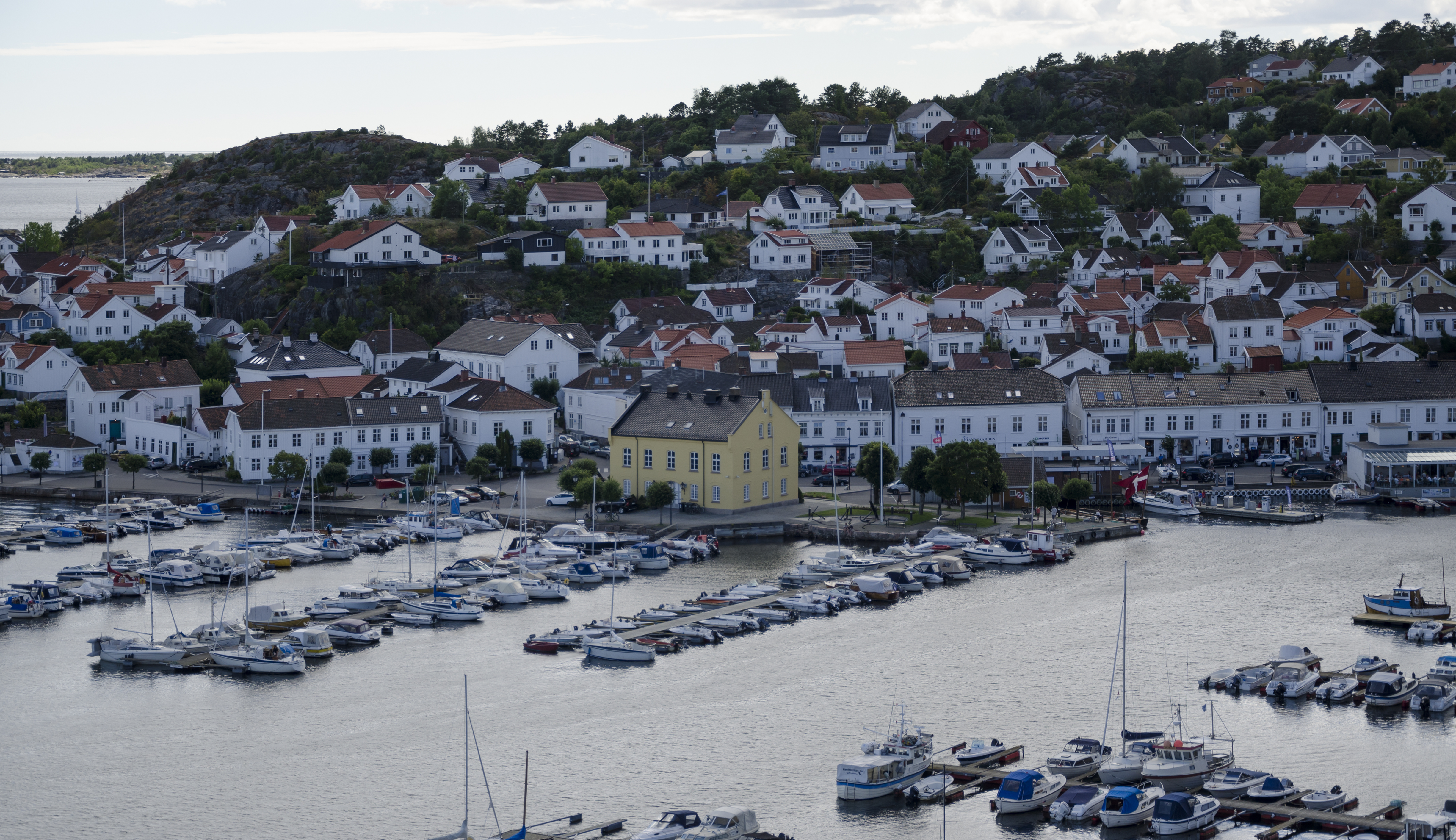 Risør seen from a hill above in august 2017.